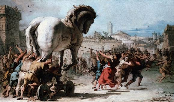 Procession of the Trojan Horse in Troy